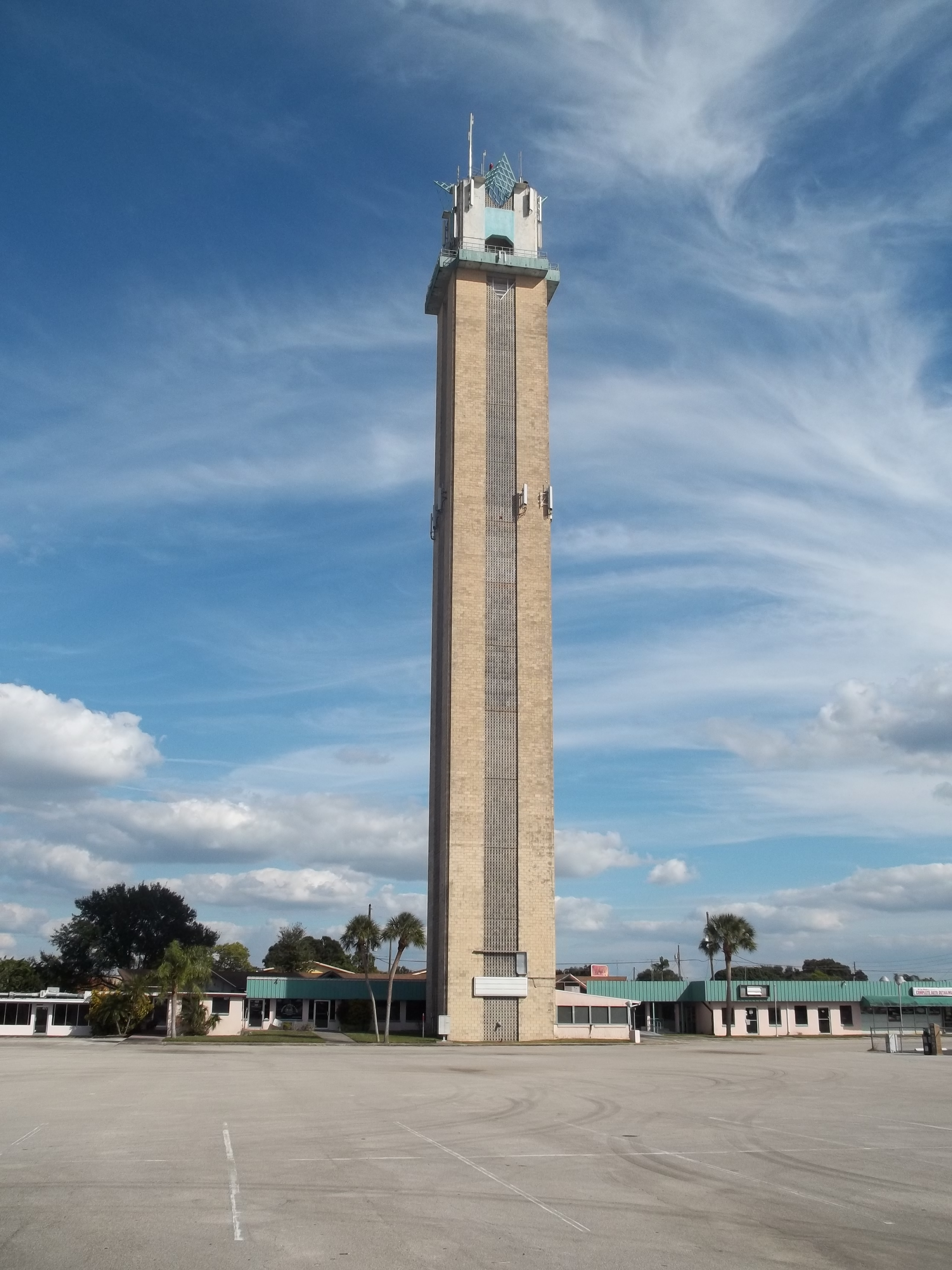 Lake Placid, Florida: Lake Placid Tower, similar in style to the Citrus Tower in Clermont